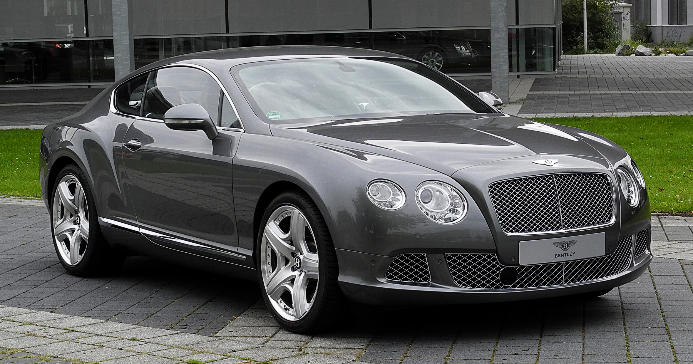 Bentley Continental GT (II)